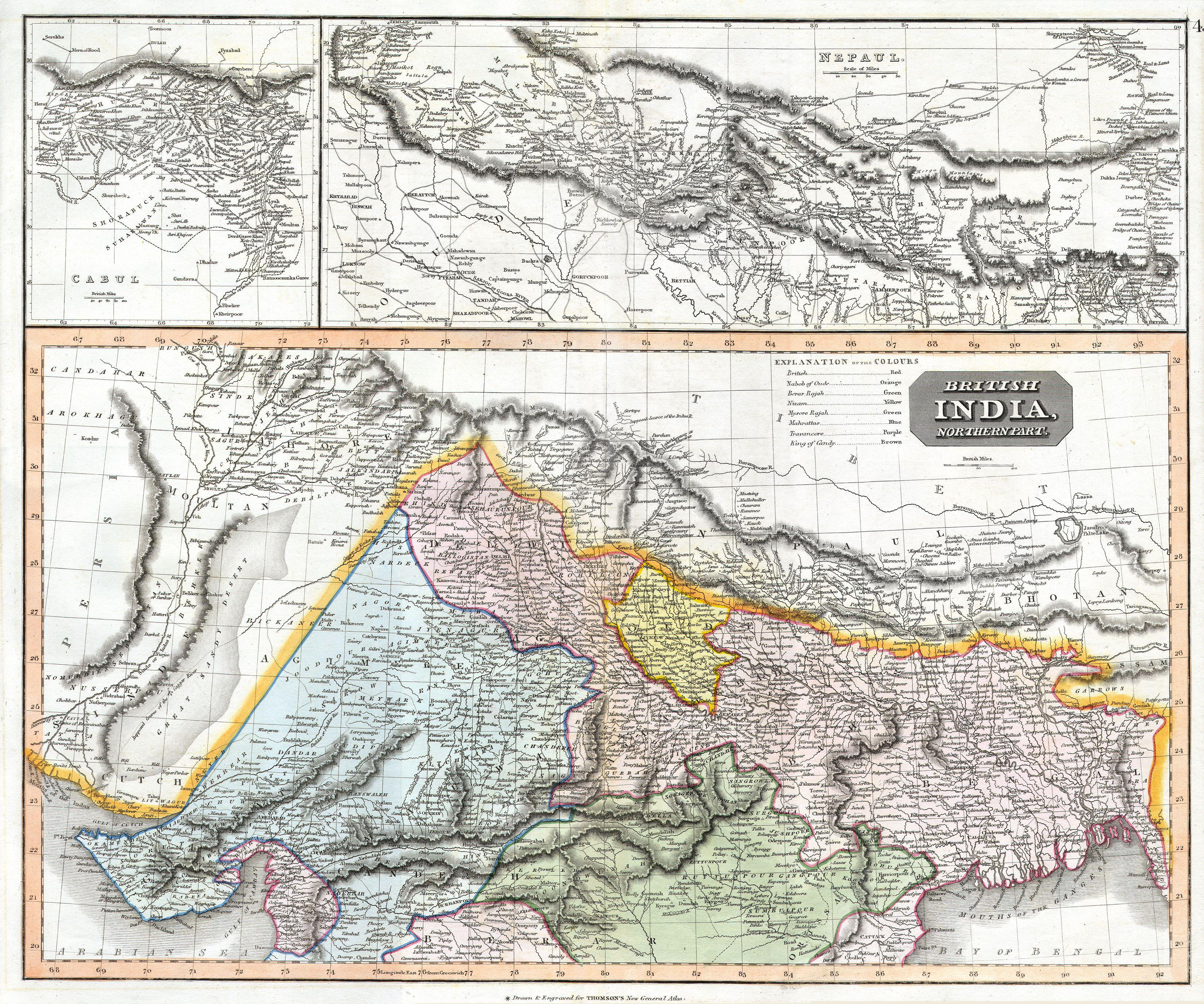 This fascinating hand colored 1814 map by Edinburgh cartographer John Thomson depicts northern India and Nepal. Bounded on the east by Persia and the Indus valley, on the North by Tibet, on the south by Berar, and on the east by Assam and Bhutan. Much of the upper portion of this map includes a detailed inset of the Kingdom of Nepal or Nepaul. This area is depicted in impressive detail considering that, when this map was printed very few western travelers had ever been to Nepal. Includes roads, mountain passes and the residences of important Lamas. Extends fully into the Tibetan plateau as far as Te Shoo Loomboo and the Road to Lhasa (Lassa). The right hand corner of this map contains an inset of Kabul or Cabul.